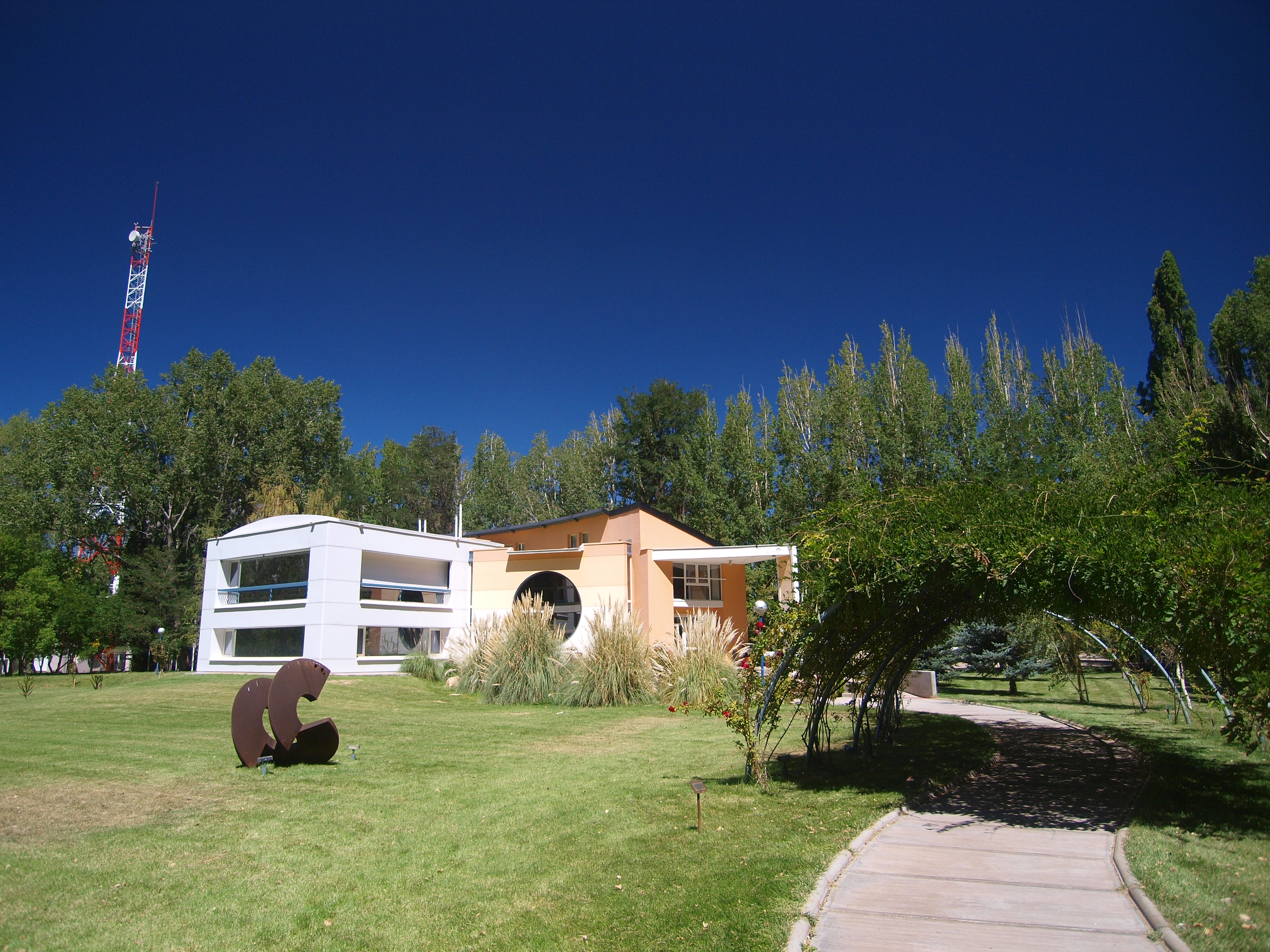 The control building of the Pierre Auger Observatory in Malargue.